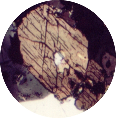 Description: Polarizing microscope picture of rock thin section taken in crossed polarized light. Note the yellow-green amphibol with caracteristic cleavage. Rock:Nepheline syenite gneiss Local:Rio de Janeiro, Brazil Author:Eurico Zimbres Free for all use Date: 1990